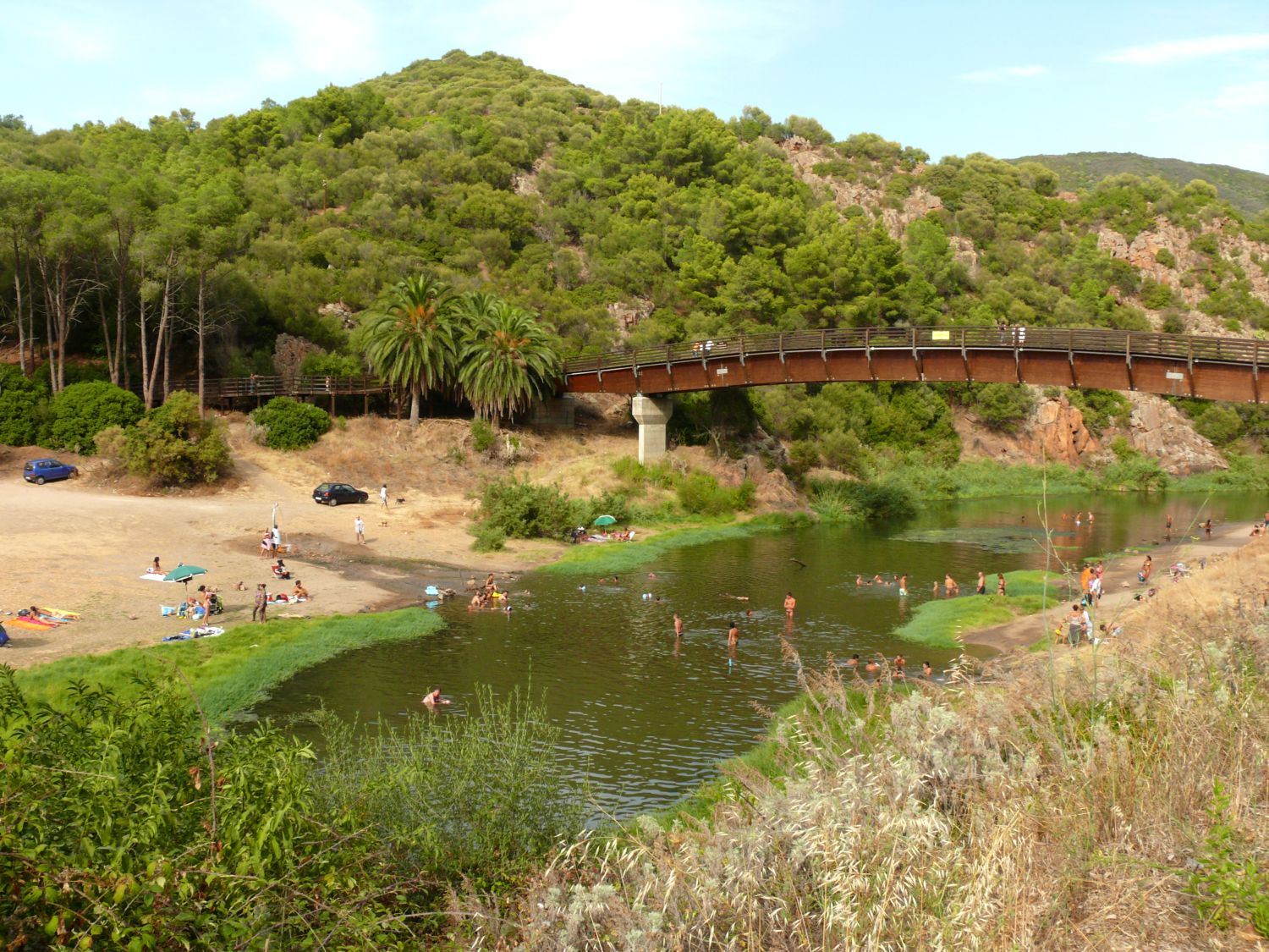 river coghinas (casteldoria's baths), Sardinia Island - italy SASSARI